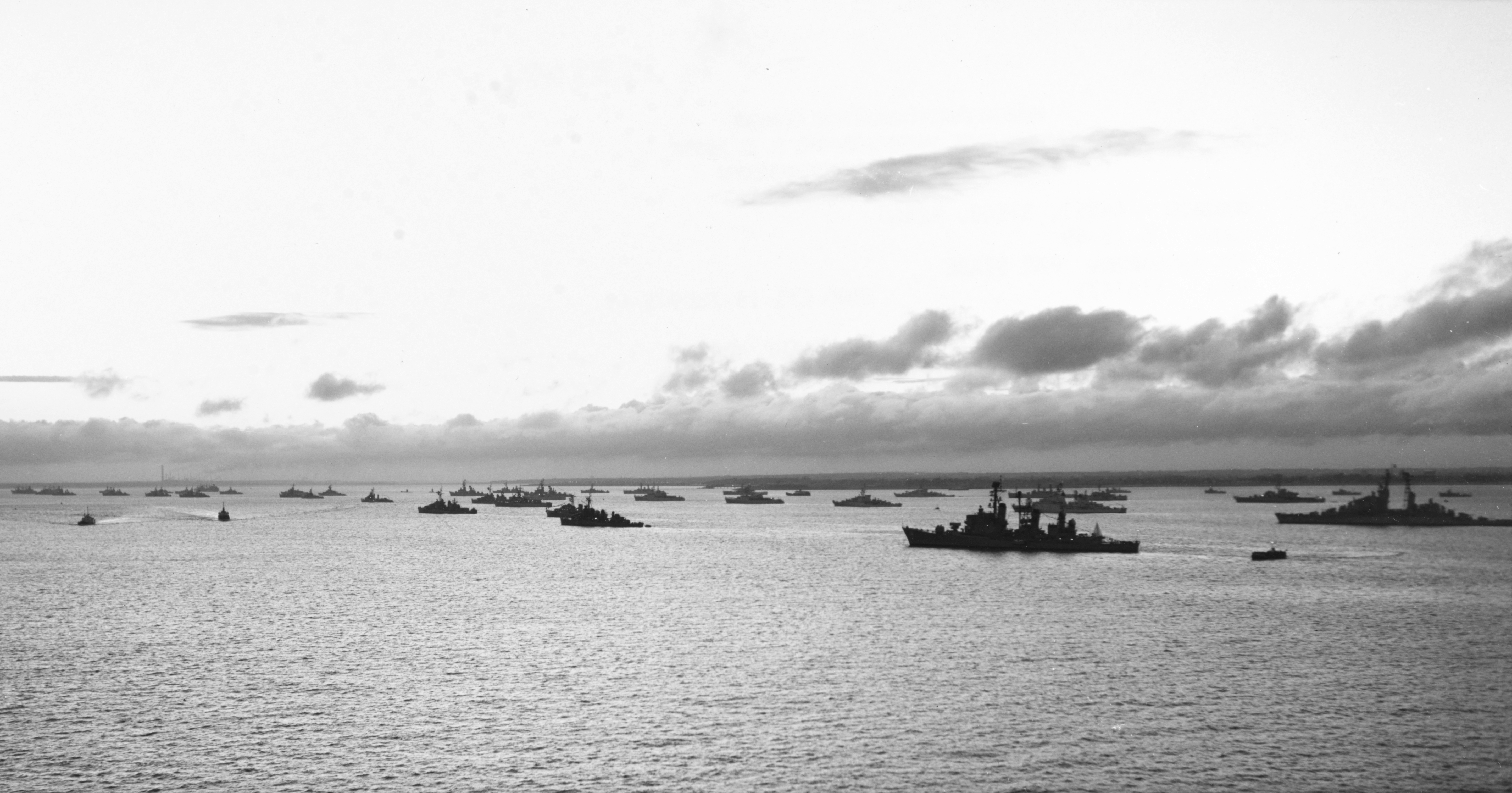 Warships of the NATO Navies in Portsmouth harbour, England (UK), at sunset, 15 June 1969. the ship in the right foreground is a U.S. Navy Farragut-class guided missile destroyer, to the right is the Dutch cruiser Hr.Ms. De Ruyter (C801).